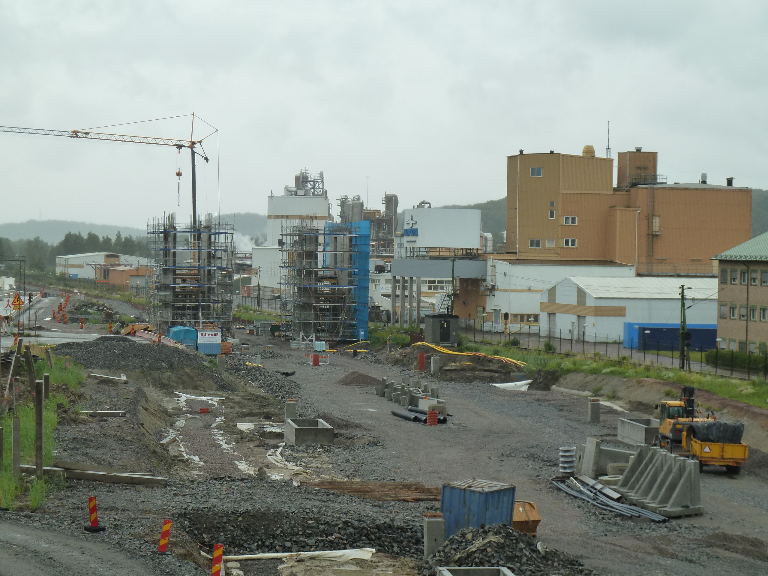 The railway under construction in Bohus, Ale, Sweden